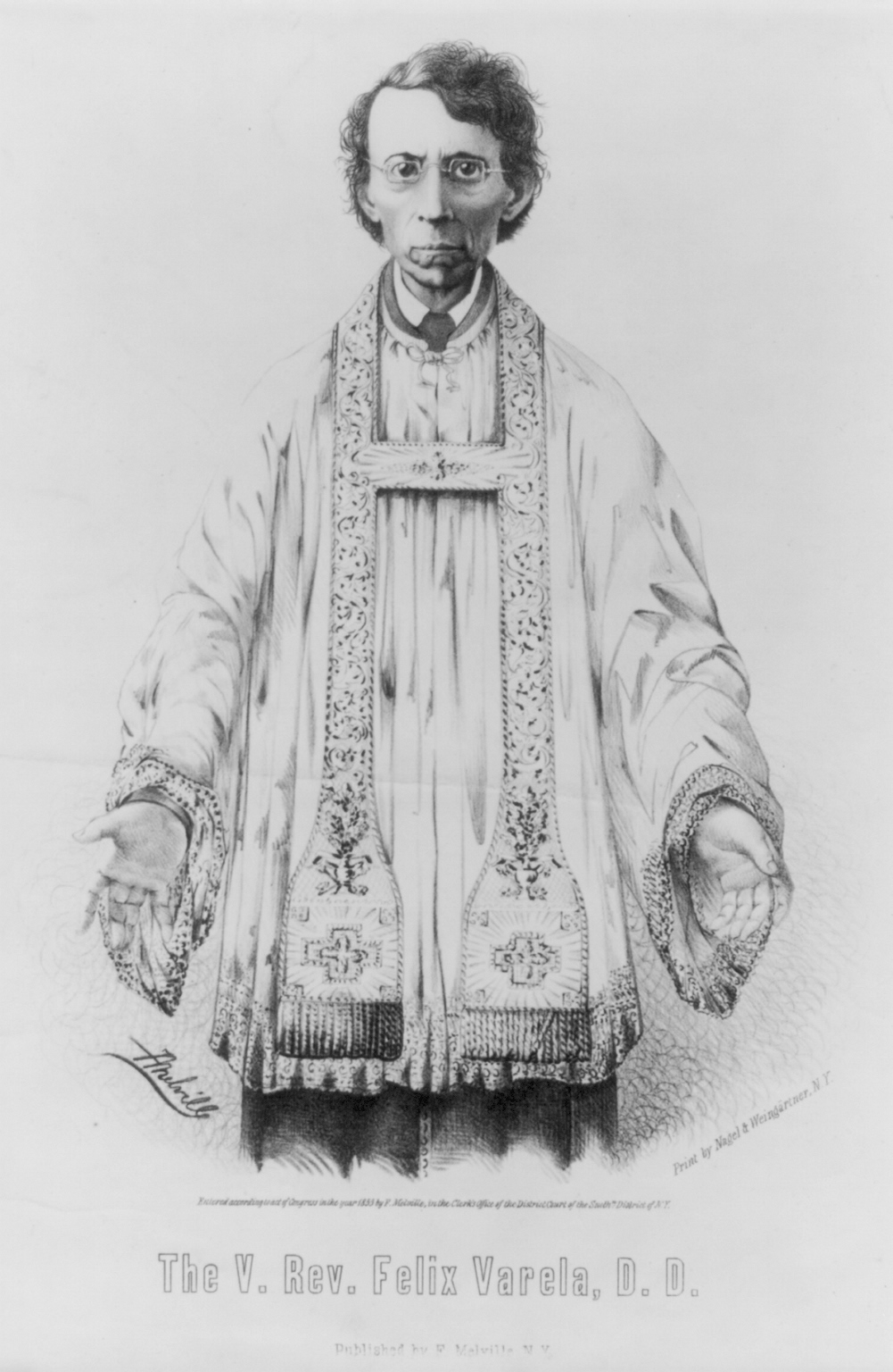 Circa 1853 image of Felix Varela (1788-1853), a Cuban-born Roman Catholic priest who lived and worked in the United States from 1823 to his death. Varela worked with poor immigrants in New York and founded the Church of the Transfiguration there.